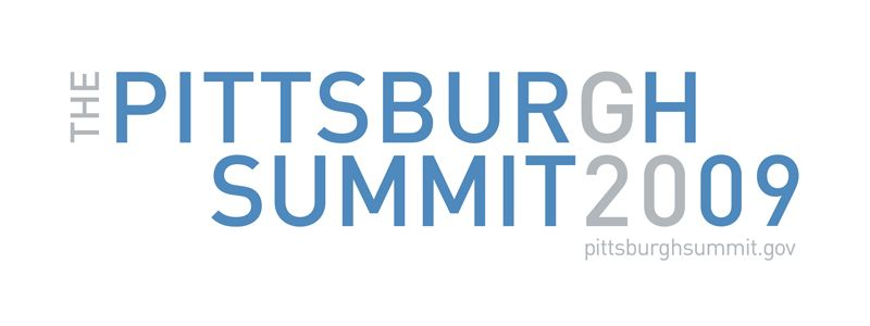 Logo of Pittsburgh summit